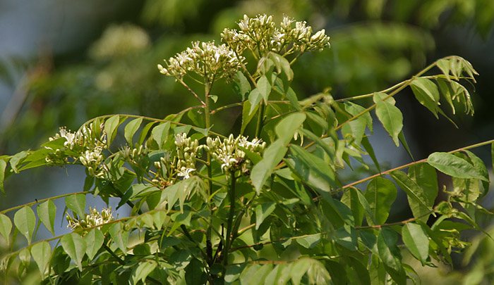 Kadi Patta Murraya koenigii at Jayanti in Buxa Tiger Reserve in Jalpaiguri district of West Bengal, India.